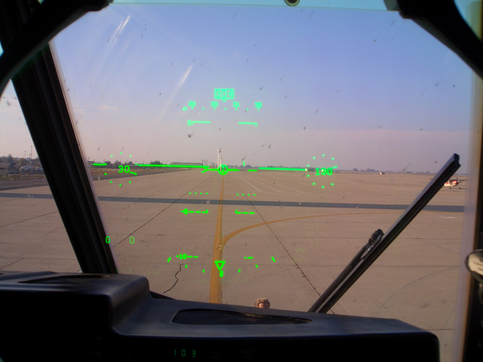 C-130J: Co-pilot's head-up display. Former Castle AFB, California.